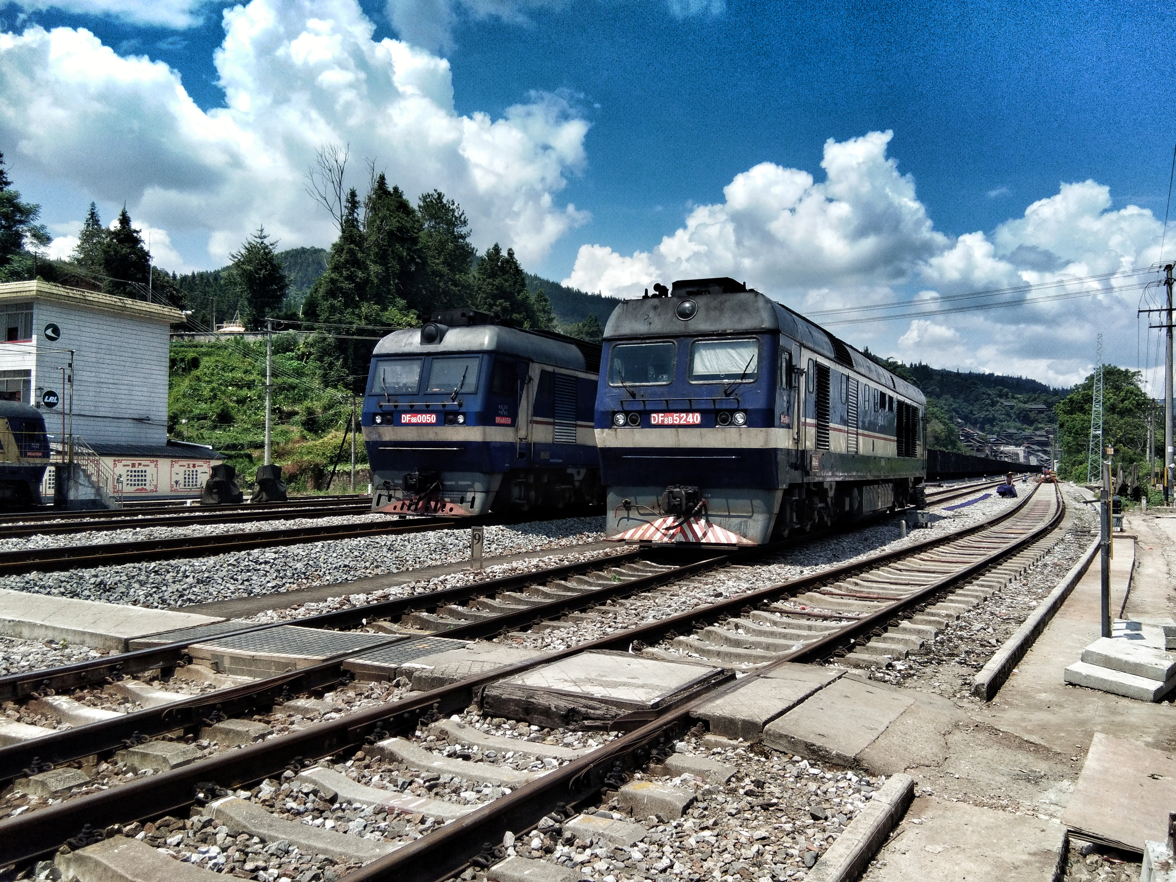 DF8B 0050 (left) and DF8B 5240 (right) in Badou Railway Station, Bajiang Village, Sanjiang County, Liuzhou, China.